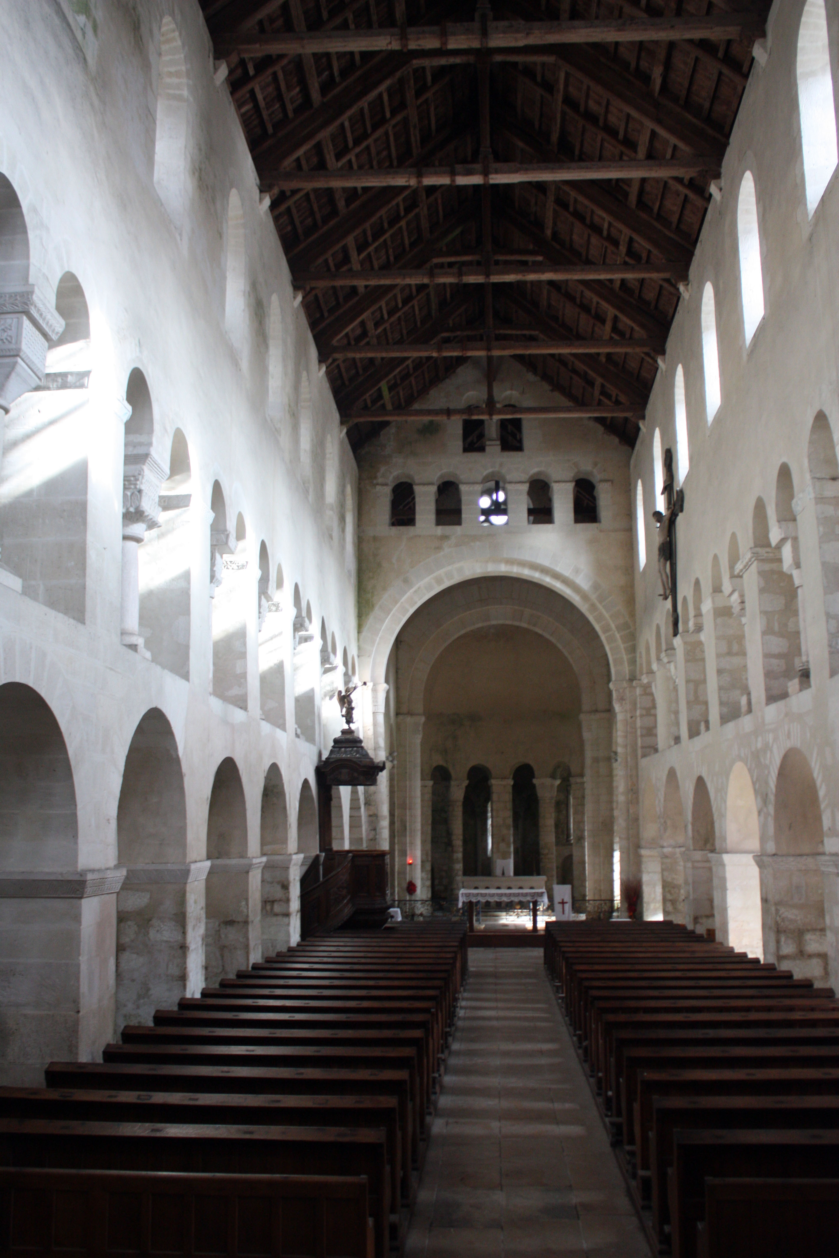 An arc diaphragm mark the boundary of the vessel of the nave.